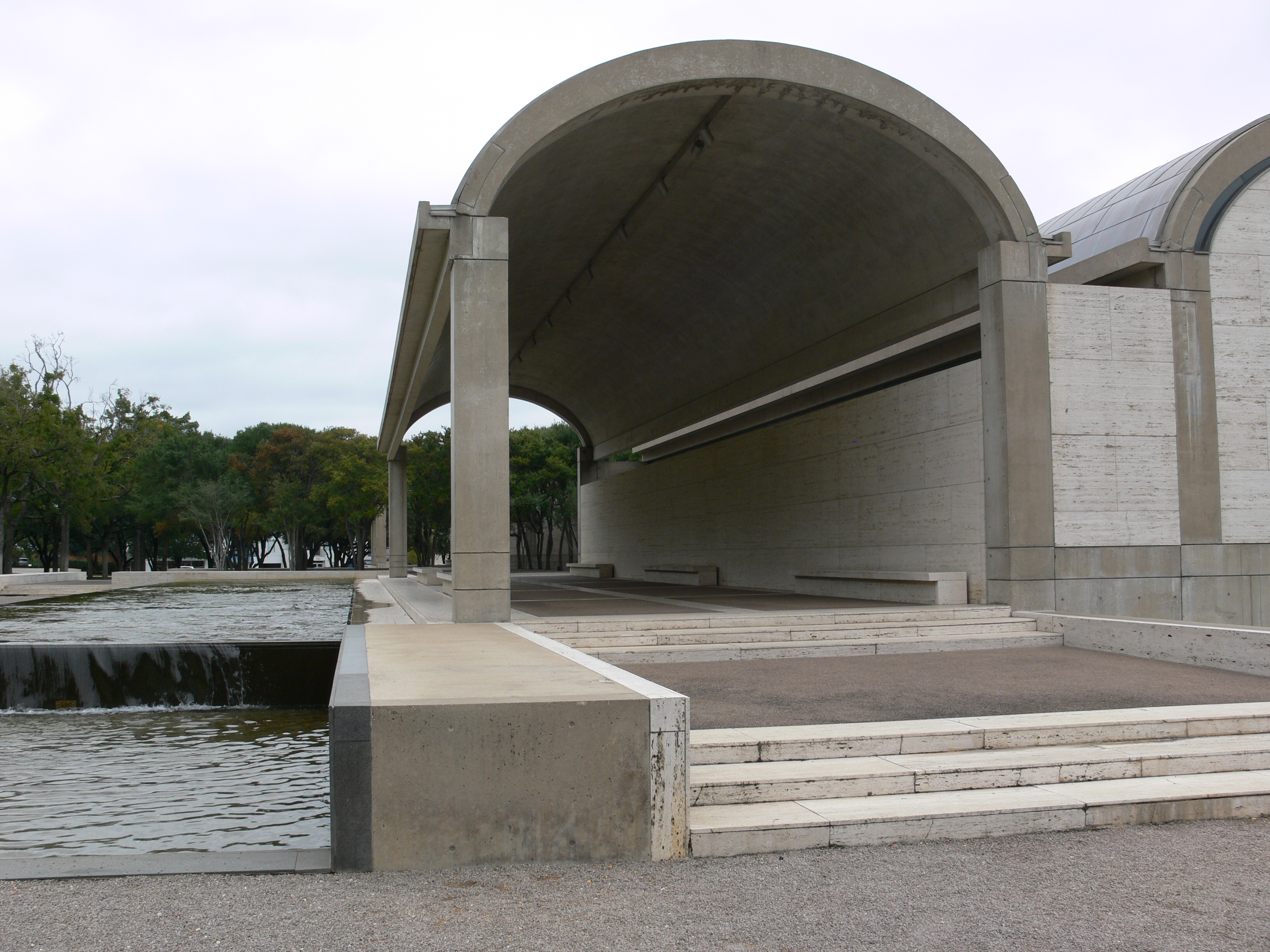 Kimbell Art Museum, Fort Worth, Texas